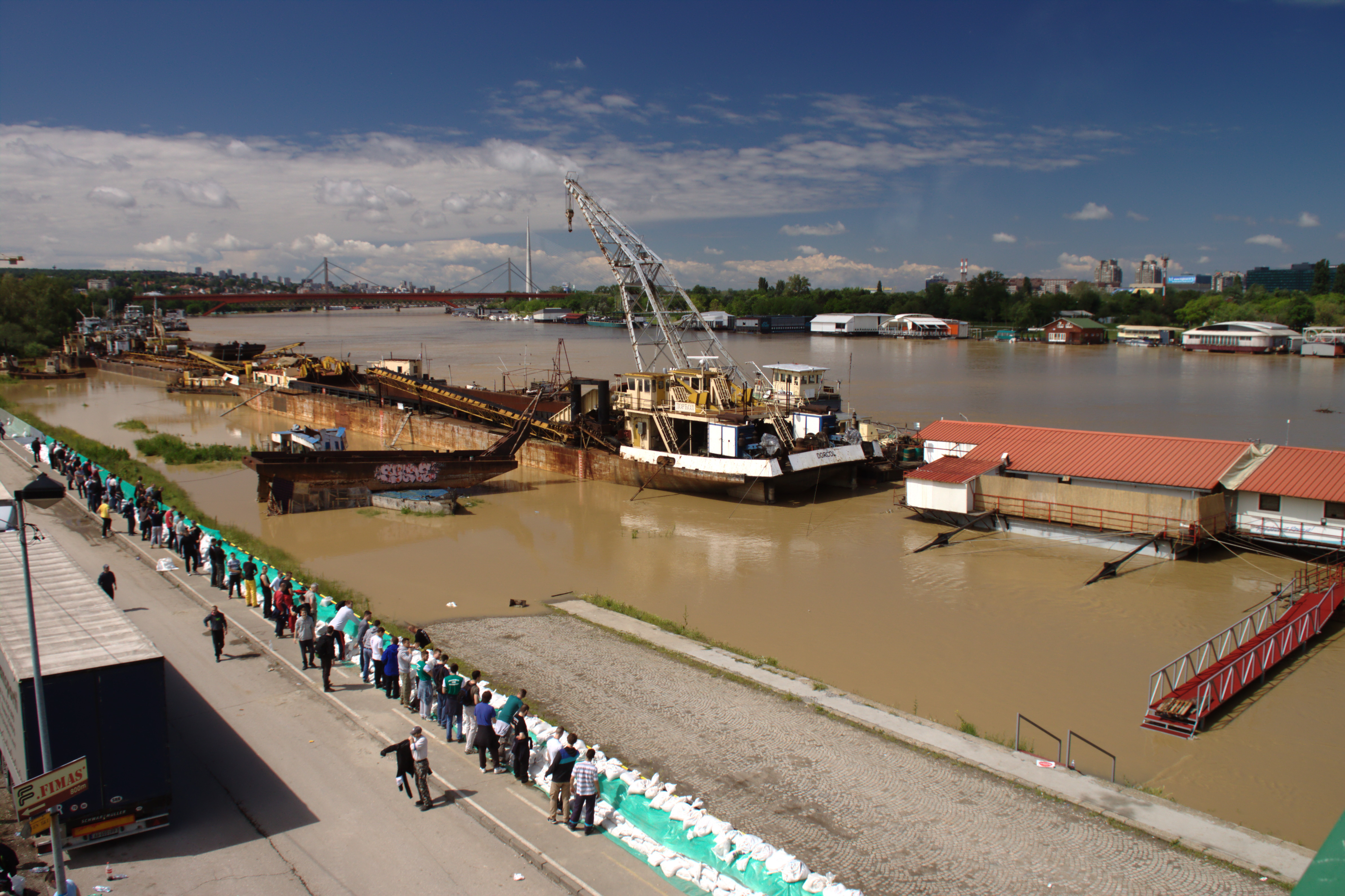 Belgrade being flooded by the Sava River. The scene is seen from Old Sava Bridge